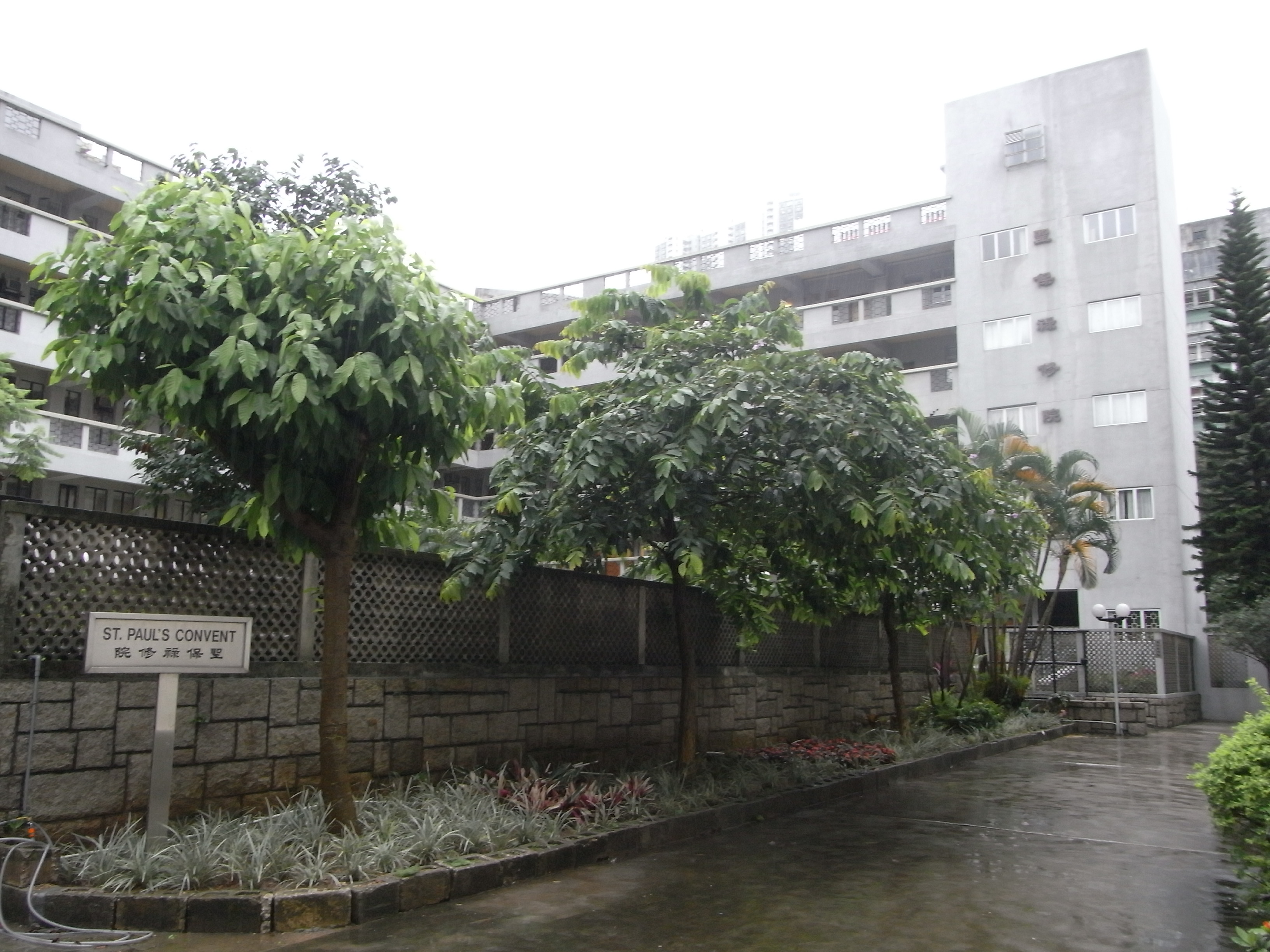 銅鑼灣聖保祿修院